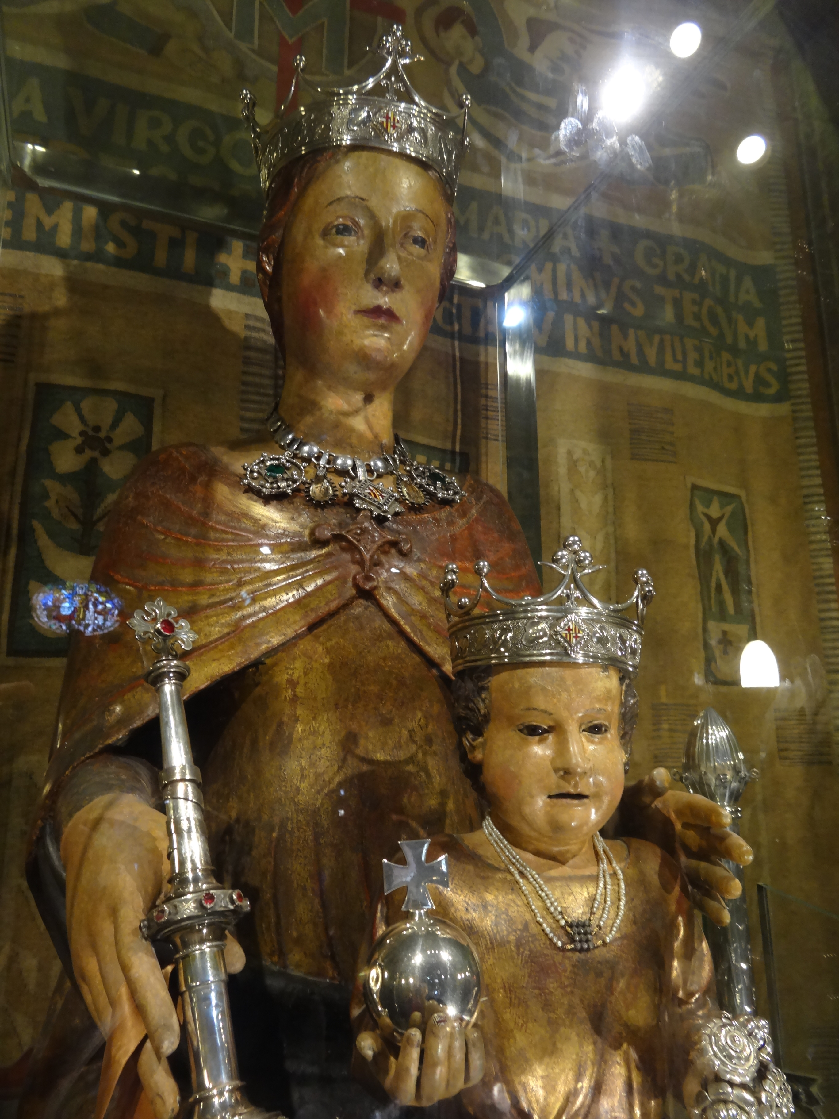 Basílica de la Mercè, Barcelona. Upper chamber.